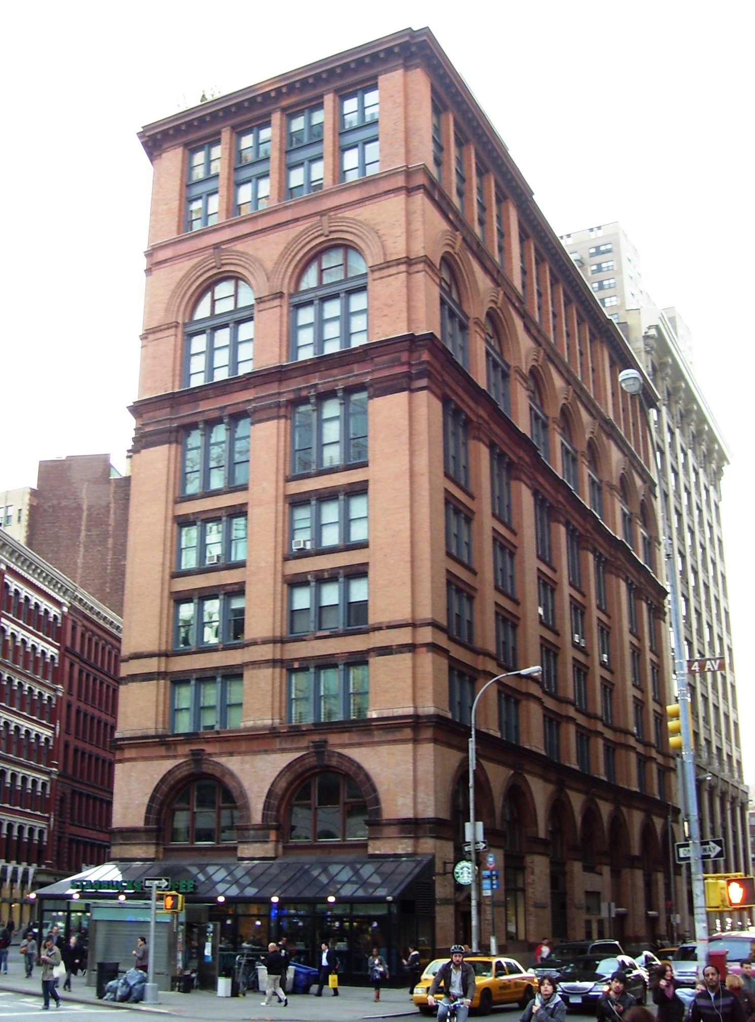 Clinton Hall at 13 Astor Place, designed by George E. Harney, was built in 1890 on the site of the Astor Opera House, which, after a riot provoked by rival productions of Macbeth, was closed down and turned over to use of the New York Mercantile Library. The original building was torn down, and this 11-story structure was built in its place. The library left in 1932, and the building has since been a union headquarters (District 65 of the Distributive Workers of America), the Astor Place Hotel, and, as of 1995, condominiums. (sources: Gotham by Burrows & Wallace, AIA Guide to NYC 4th ed, and